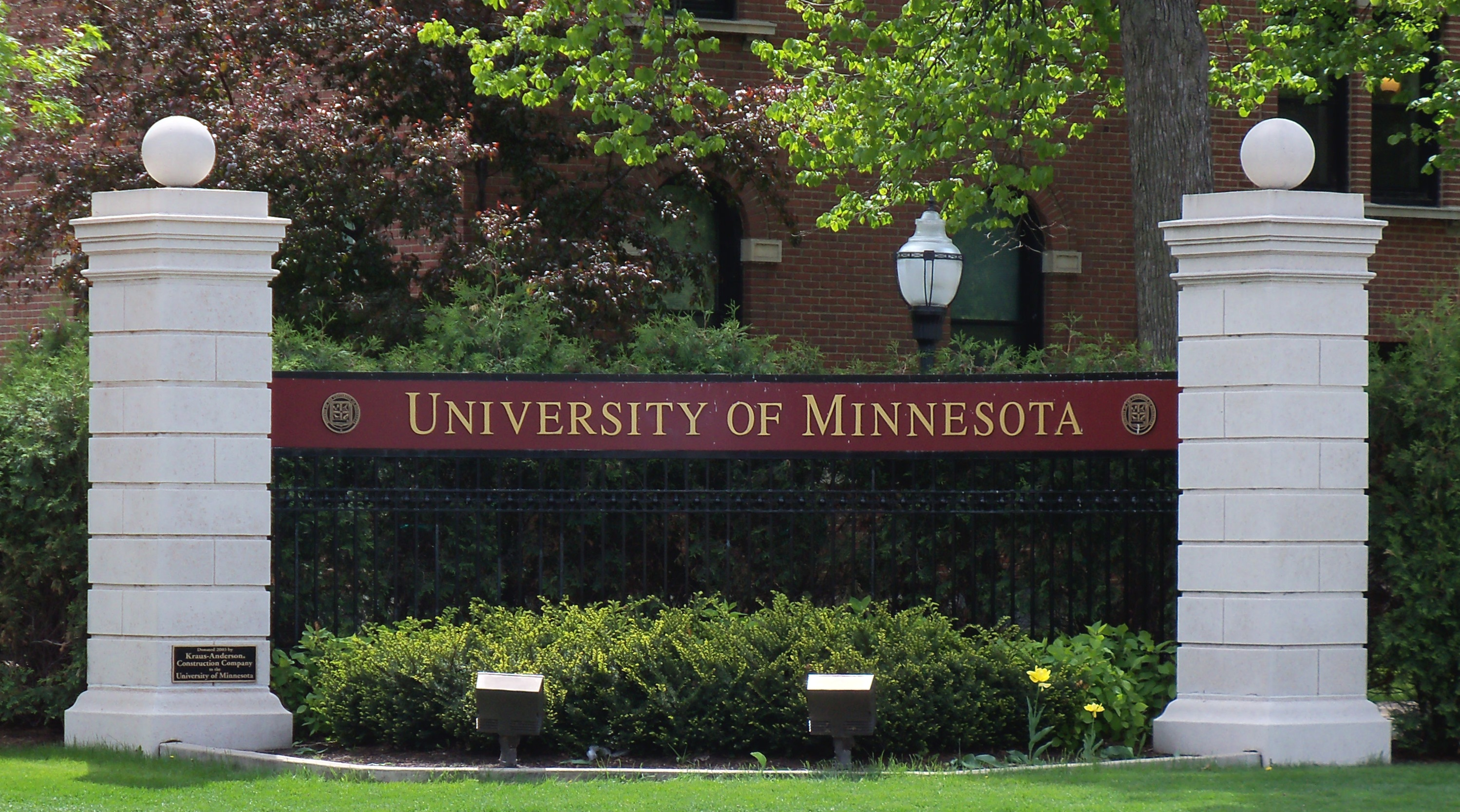 Entrance sign at the northwest corner of the University of Minnesota in Minneapolis, Minnesota, USA.